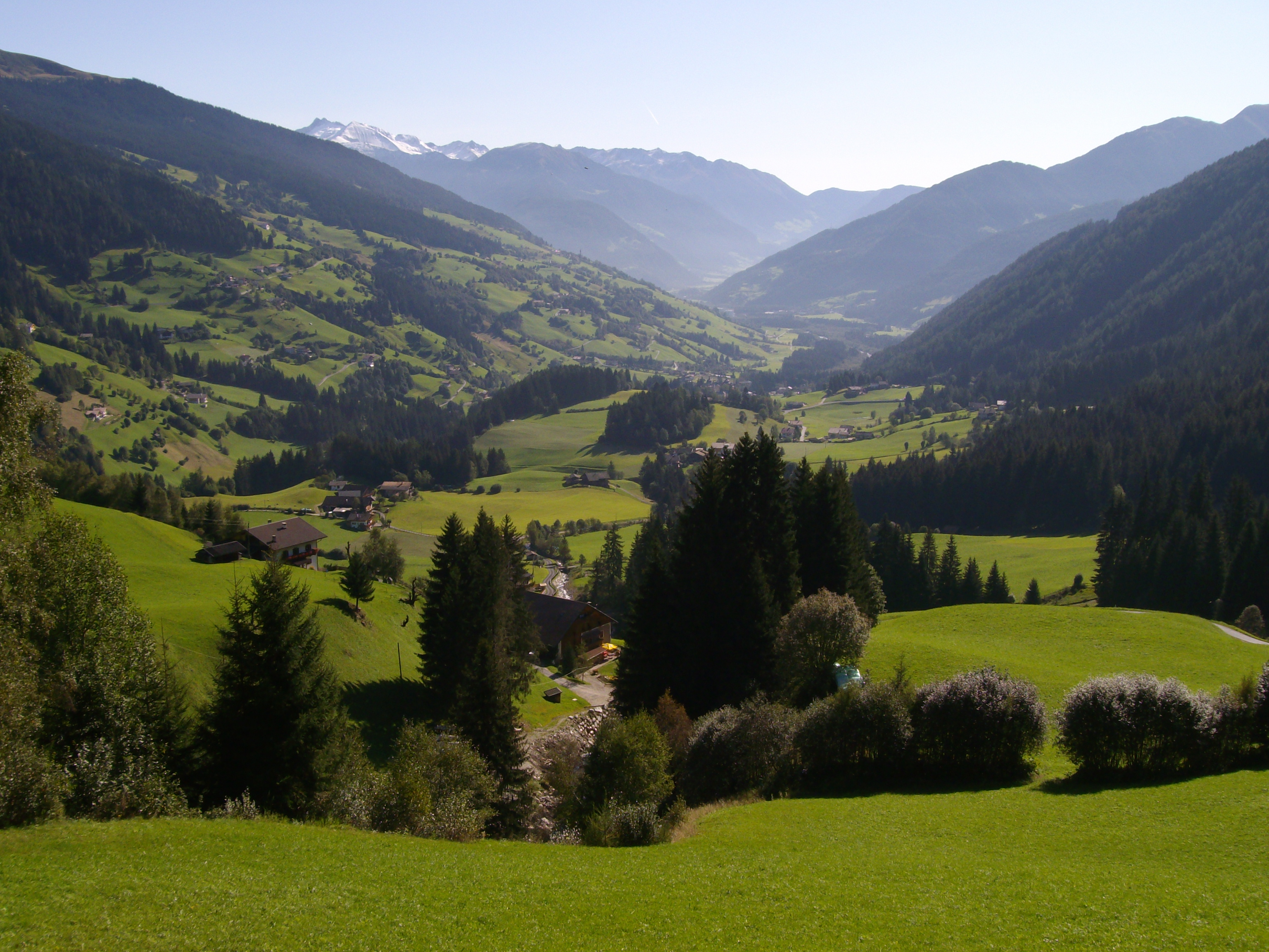 Italy, South Tyrol, Ridnauntal. The wide valley.